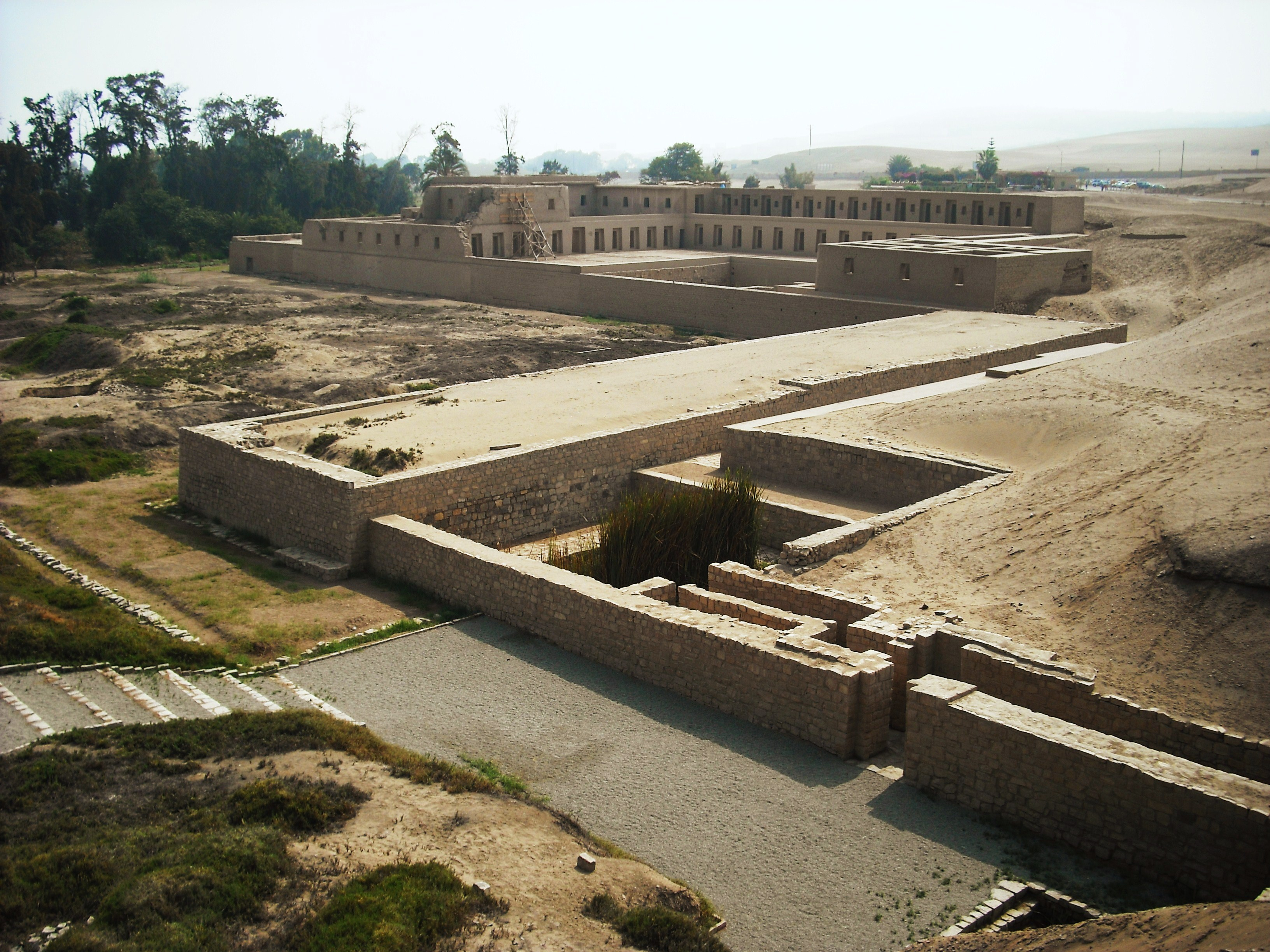 Mamacona, Pachacamac, Peru